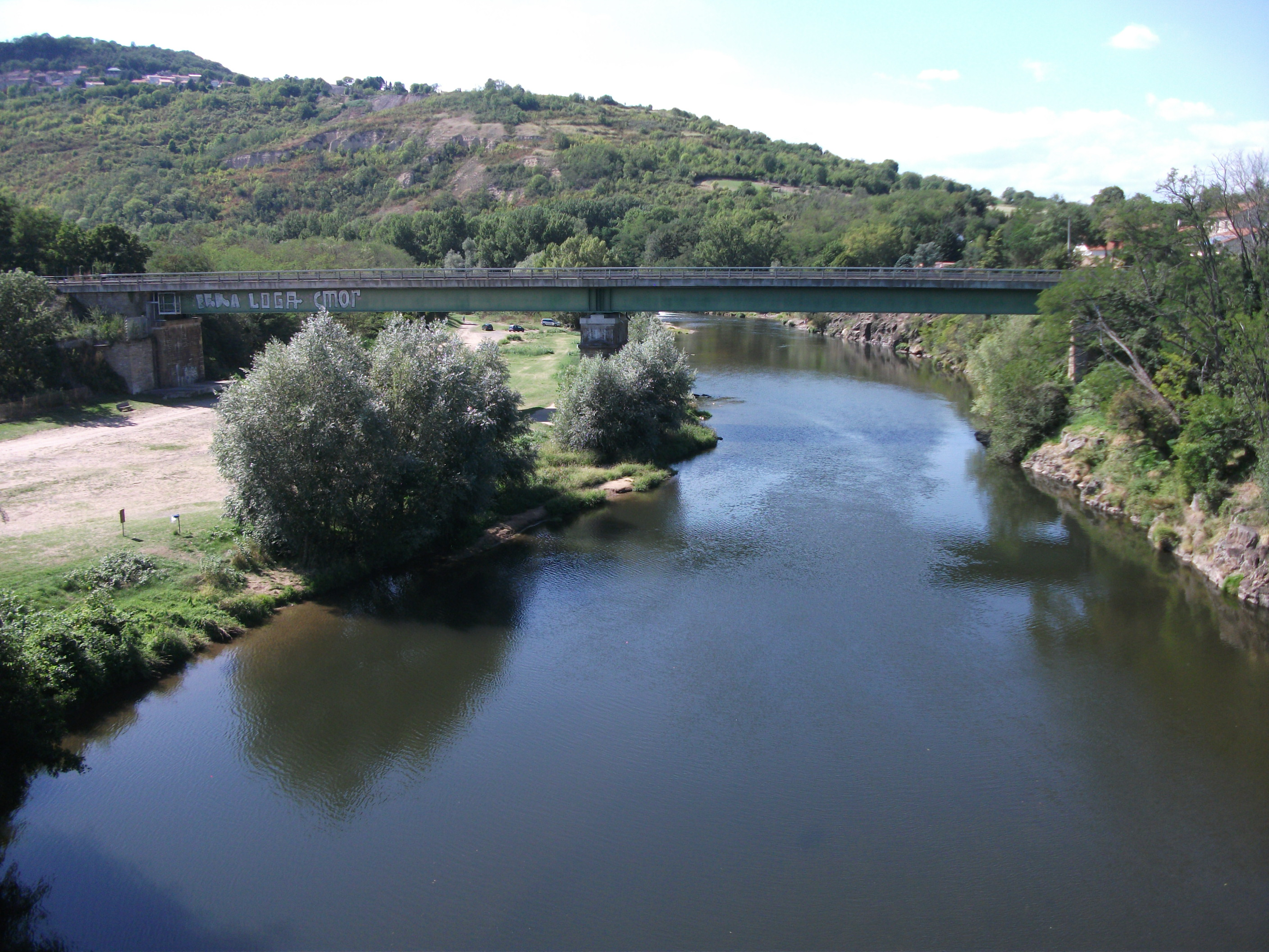 Allier River in the north of Longues (commune of Vic-le-Comte) downstream, and on second ground, bridge of Saint-Germain-des-Fossés–Nîmes railway [8762]